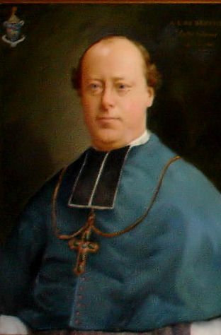 Mgr. De Battice